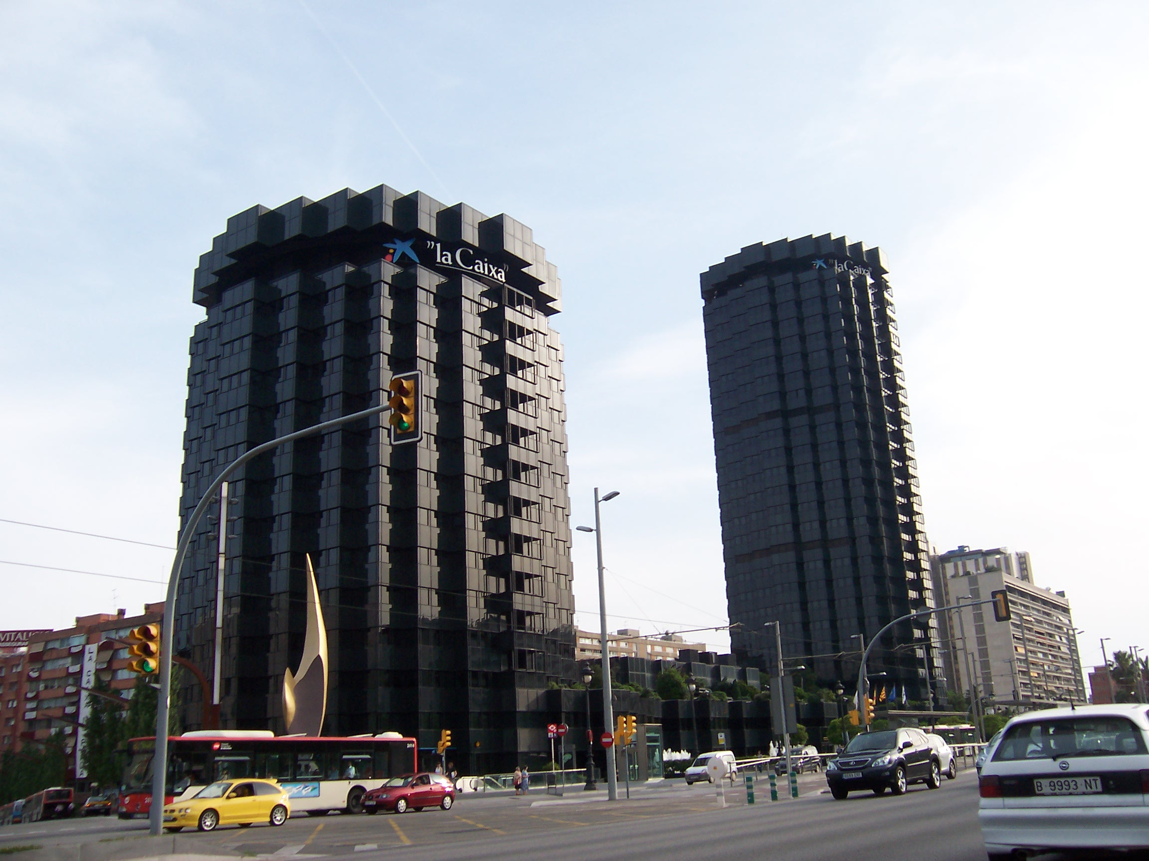 Diagonal Avenue, in Barcelona.